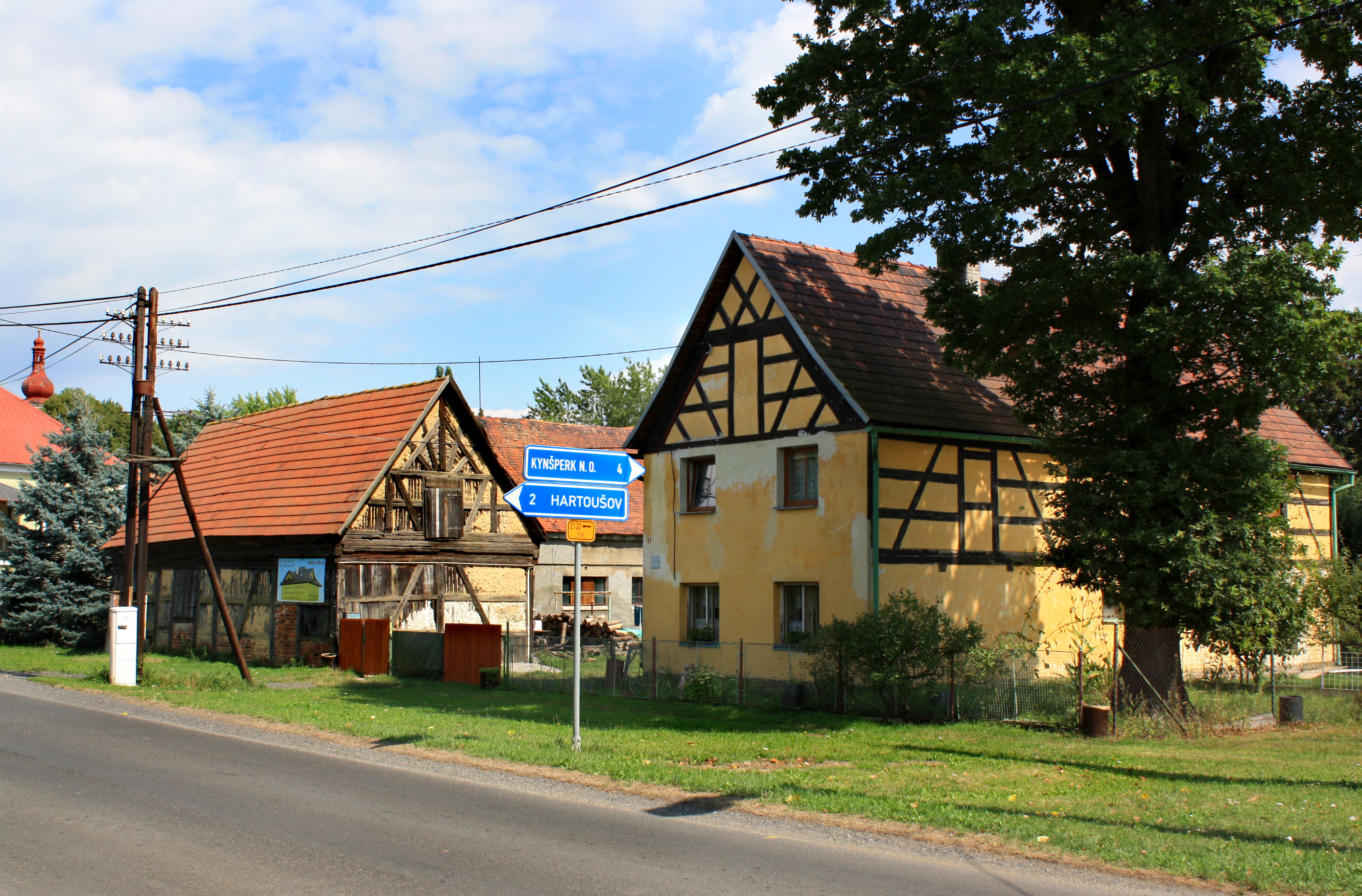 Vernacular architecture in Nebanice, Czech Republic